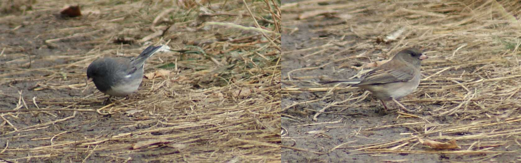 Two birds which were hopping around the ground on a foot path at the edge of the woodlands near South Saskatchewan River south of Saskatoon in Chief Whitecap Park between the Saskatoon golf and country club and Riverside golf club, west of Furdale. Dark grey upperparts, white underbelly, lighter coloured bill. Smaller than a blackbird. Females have more brown on backs and wings than males which are a steadier colour of grey throughout. Females may have a grey hood and grey upper breast, giving rise to a white lower breast and brown and grey wings and back. Junco hyemalis [1] E-bird Saskatchewan Dark-eyed Junco Audobon All about birds Slate-coloured Junco / Junco ardoisé (Junco hyemalis) [2] [3] USGS [4] [5] "Once a pair is formed, males follow their mates and are seldom more than 50 feet away.[6]"